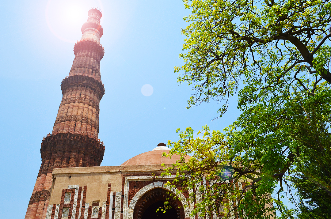 Qutub Minar is my favorite monument place for clicking pictures. On this day i reached at afternoon and sun was at top of the Minar. Below the Minar is a gate entry which has four gates and is also used for devoting prayers. Minar now has 5 floors and entry in Minar is restricted.